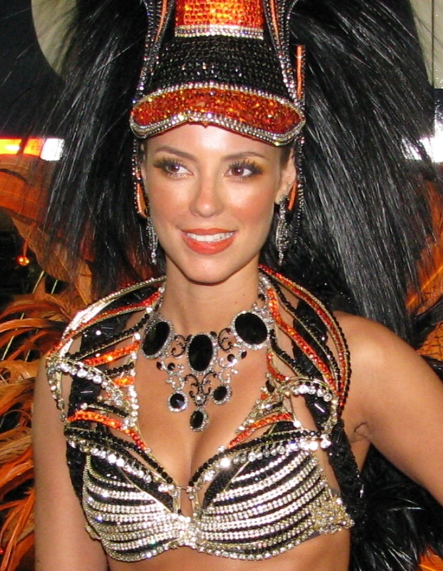 The actress Paola Oliveira at Masques de Sapucaí, 2010 Rio de Janeiro Carnival.